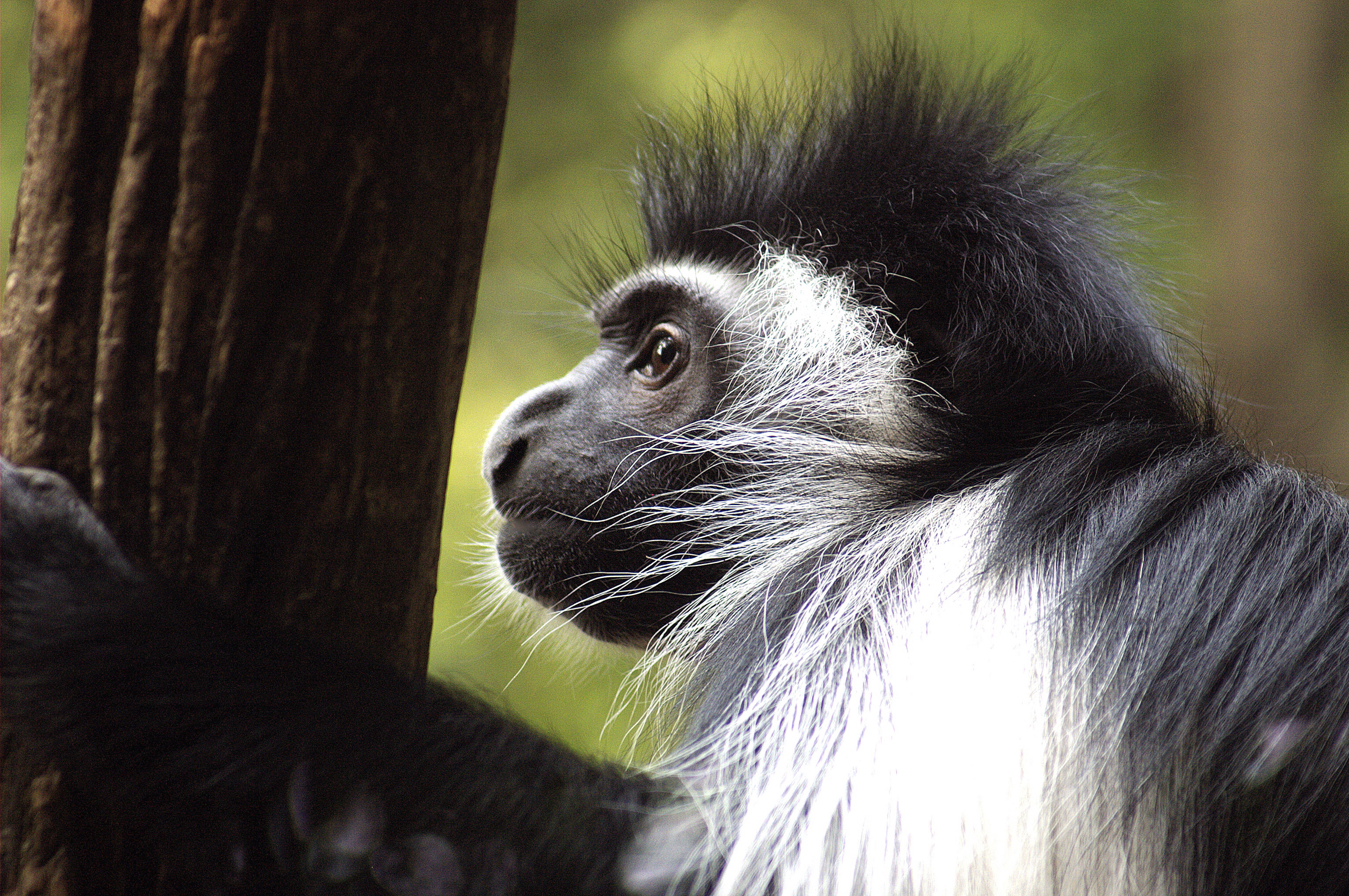 Photo taken by Kabir Bakie at the Cincinnati Zoo on August 7, 2005